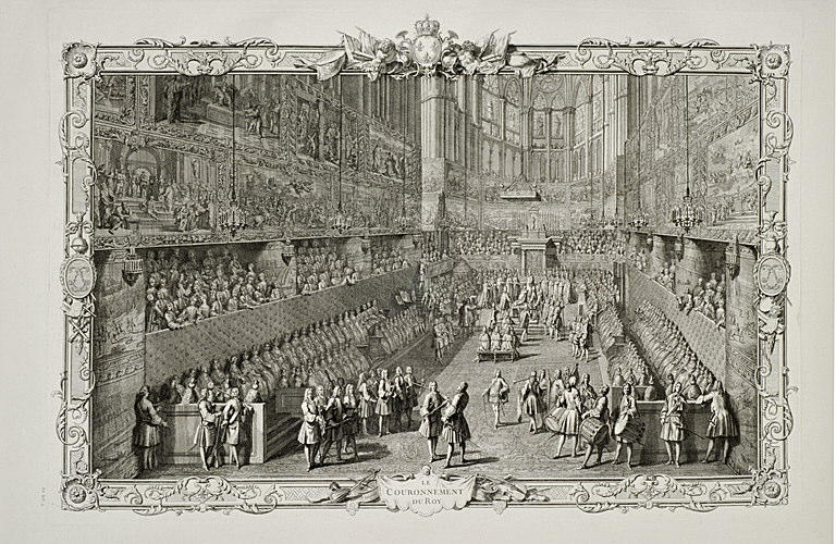 Le Couronnement du Roi engraved by Nicolas-Henri Tardieu, called "Tardieu the elder" (18 January 1674 - 27 January 1749) after a painting by Pierre Dulin